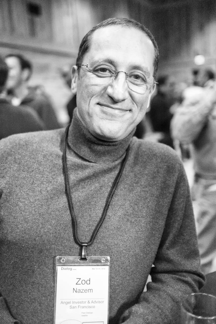 ZodFarzad Nazem